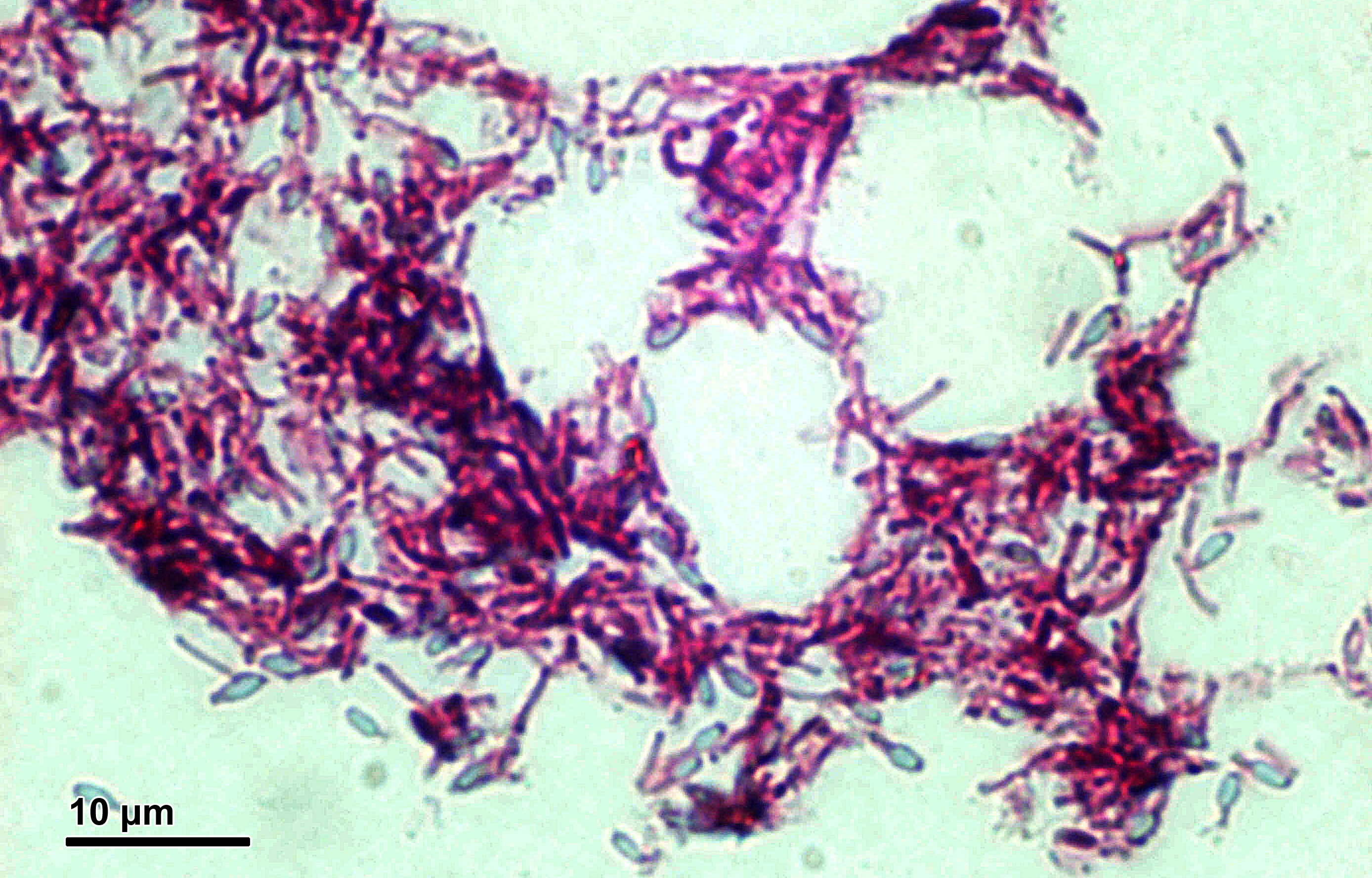 Bacteria: Airborne microbes. Optical microscopy technique: Bright field. Magnification: 3400x (for picture width 26 cm ~ A4 format).